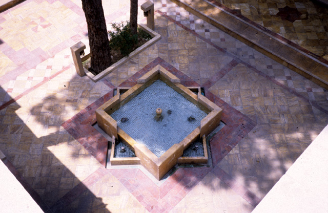 I am the phtographer. Scanned from my files.